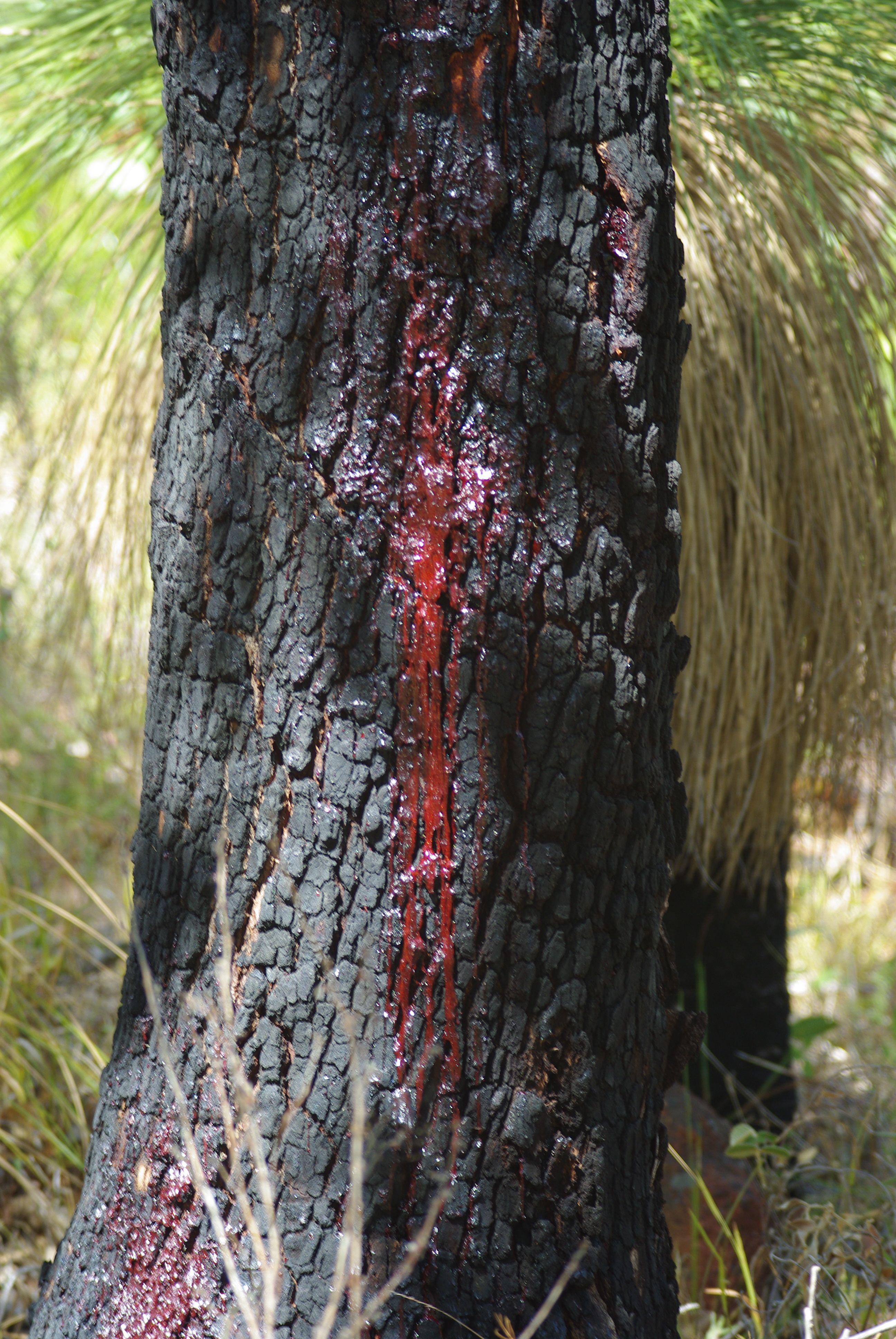 Bark and gum from Corymbia calophylla, Greenmount National Park, Western Australia